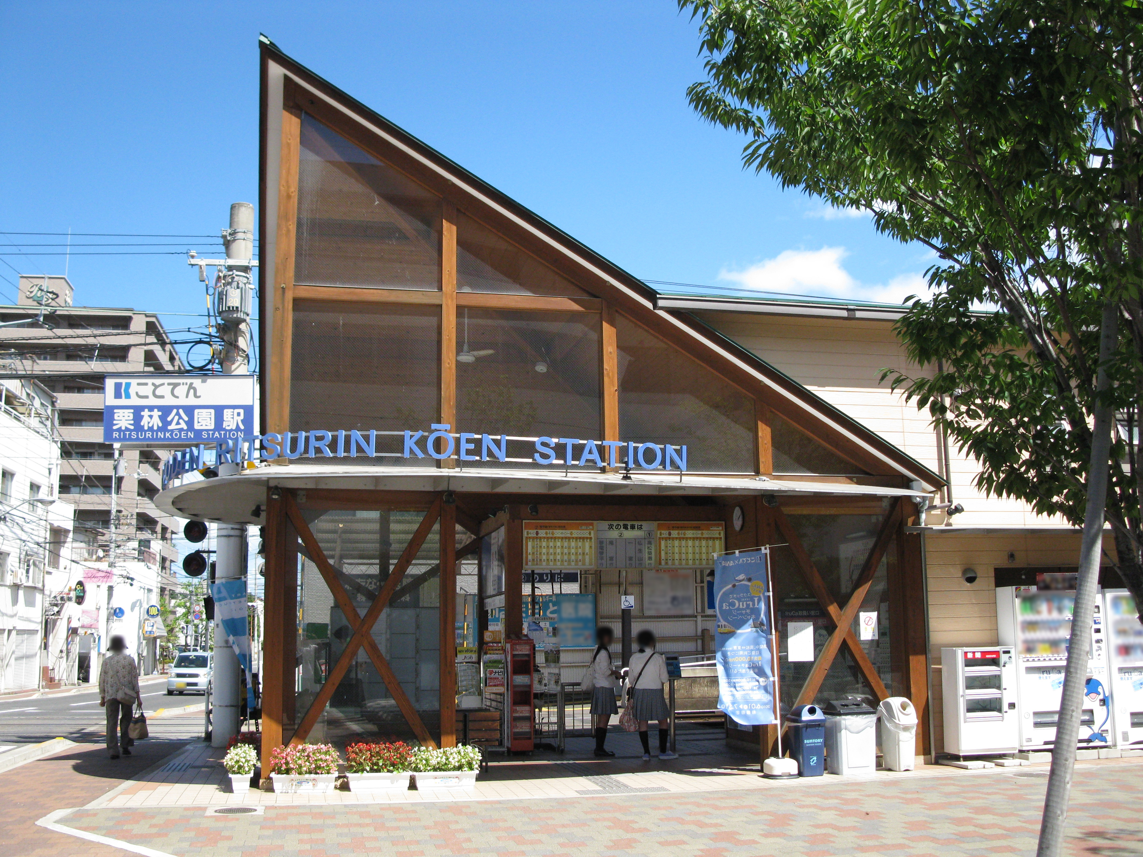 Ritsurin-Kōen Station building (Takamatsu-Kotohira Electric Railroad(Kotoden) Kotohira Line)